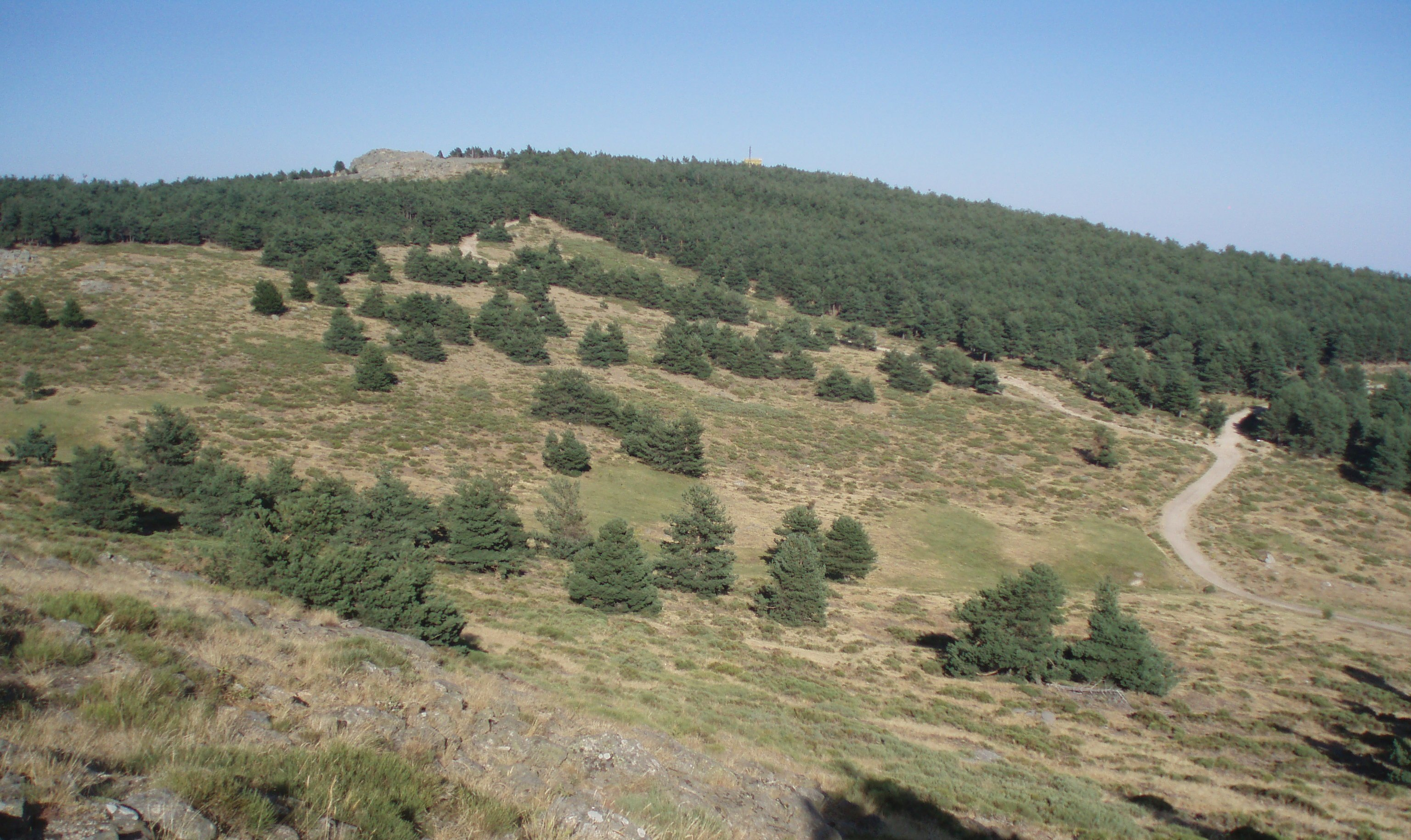 South face of Abantos Mount, situated in the Guadarrama mountain range, central Spain.